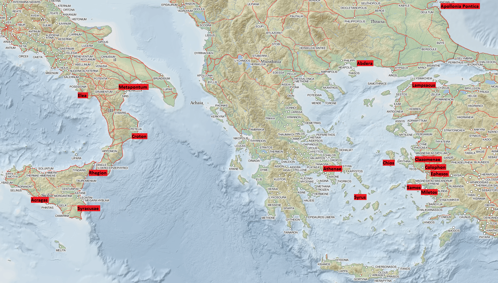 Map of the Greek World including Magna Graecia, with the cities highlighted where Presocratic philosophers were active. Adapted version of the Pelagios map of the classical world